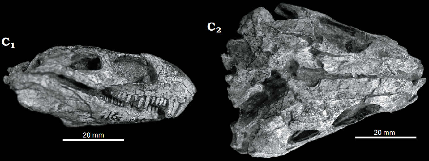 Eothyris parkeyi Romer, 1937, holotype MCZ 1161 from Archer County (Texas, USA), Kungurian (Cisuralian), lateral (C1) and dorsal (C2) views. Late Triassic (TMM 41936-1.3).